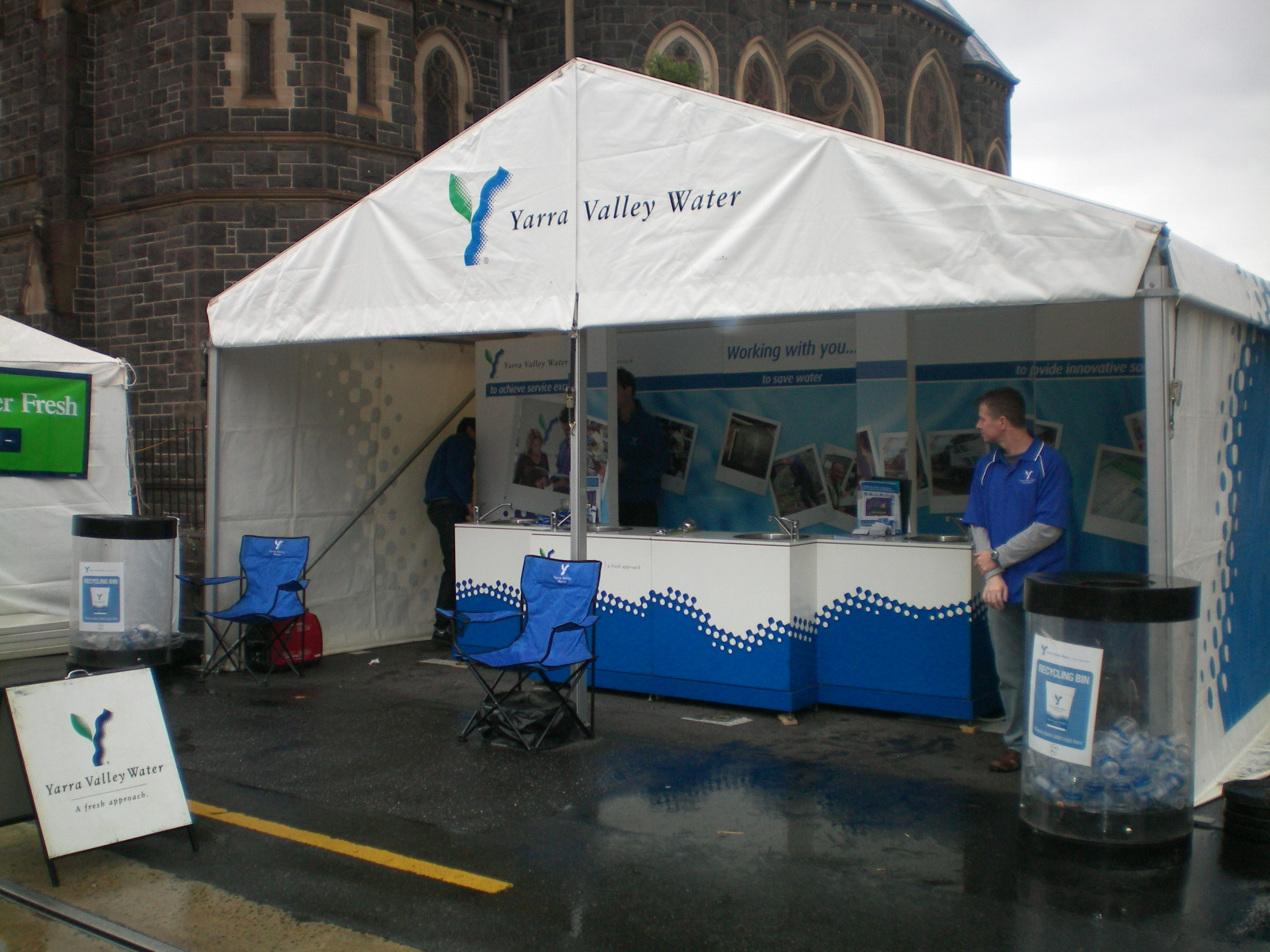 The 2009 Glenferrie Road Festival.